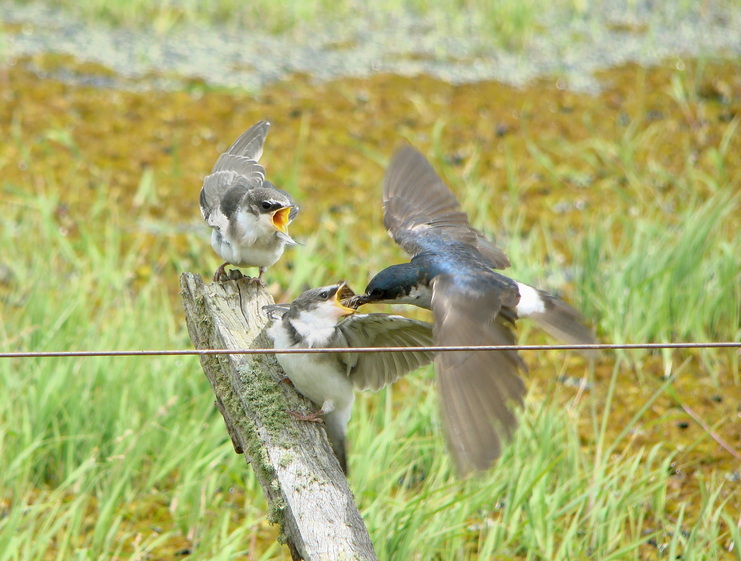 Tachycineta leucorrhoa family photographed in Rio Grande do Sul, Brazil, in December 2009.